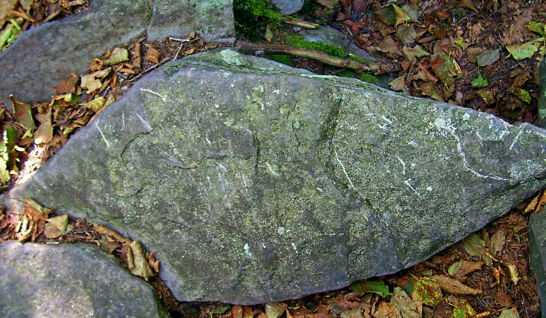 Photographed along the Pecoy Notch Trail in the Catskills 2006-08-12 by Daniel Case.